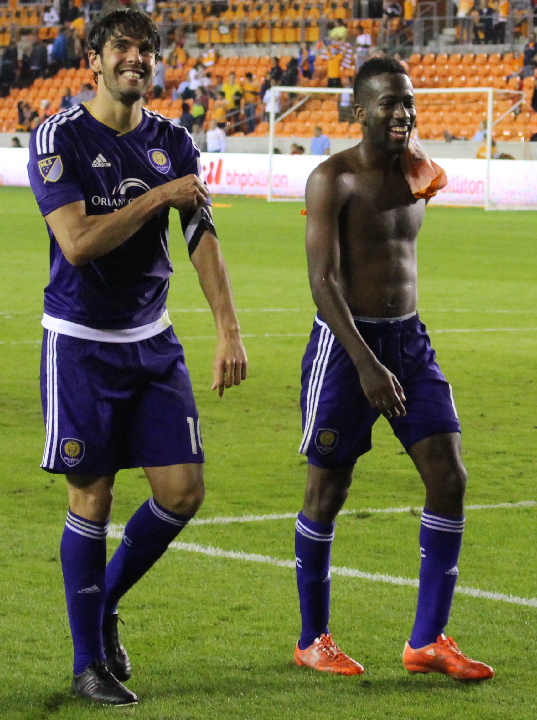 Kevin Molino with Orlando City teammate Kaka in 2015